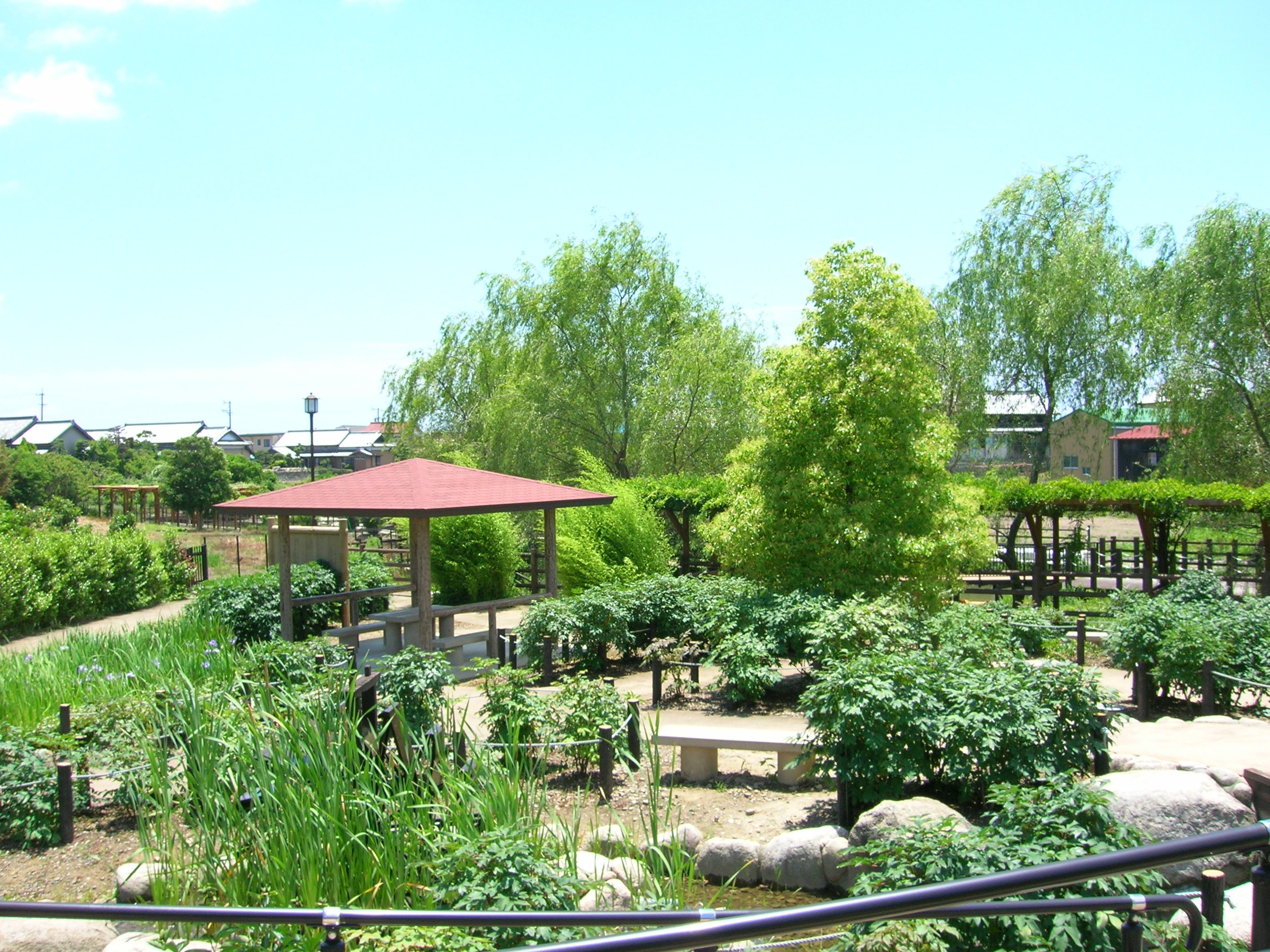 Nagashima Mizube-no Yasuragi park (Former Kuga family's house). Loc: Nagashima, Kuwana city, Mie Prefecture, Japan. 長島水辺のやすらぎパーク・親水庭園 撮影場所 三重県桑名市長島町